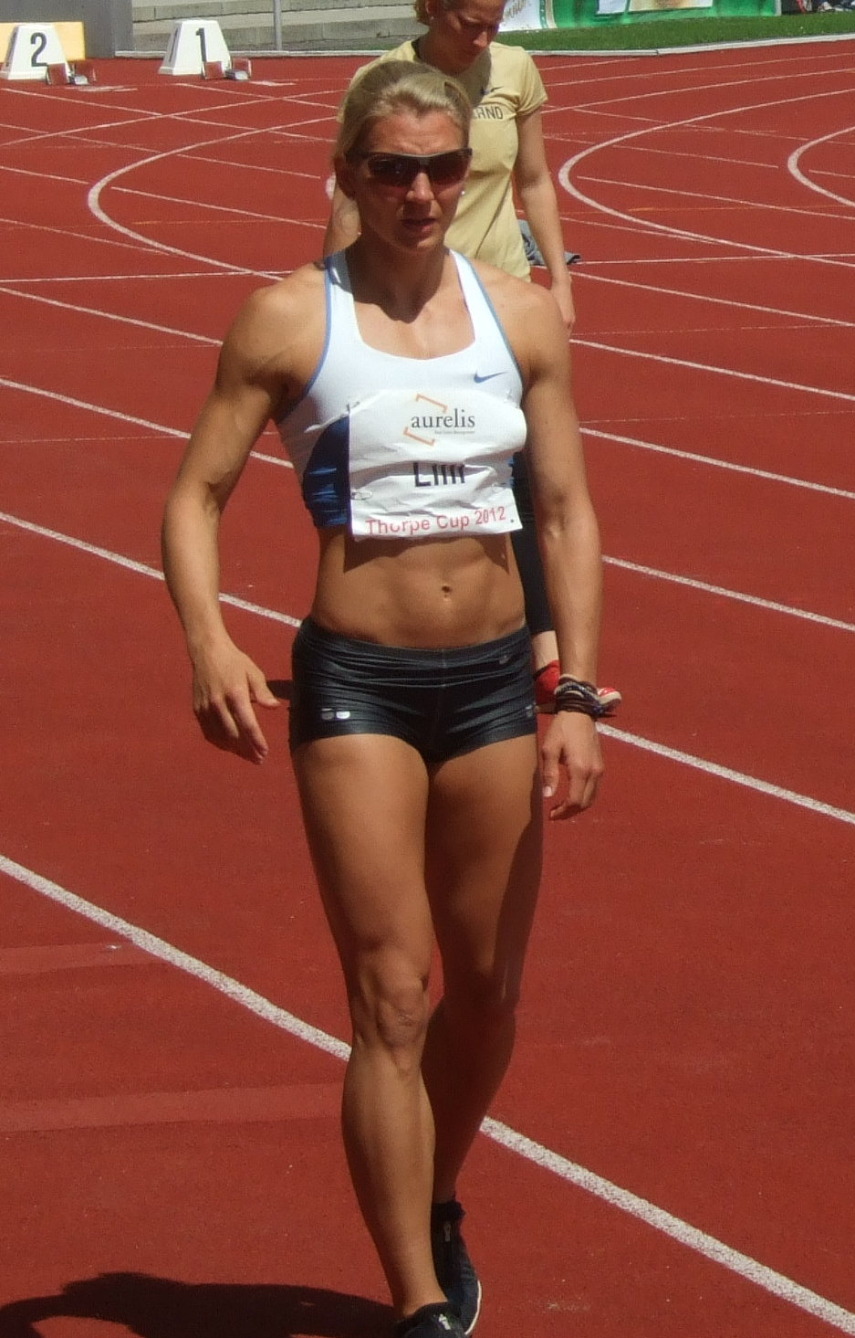 The heptathlete Lilli Schwarzkopf competing in the long jump at the 2012 Thorpe Cup